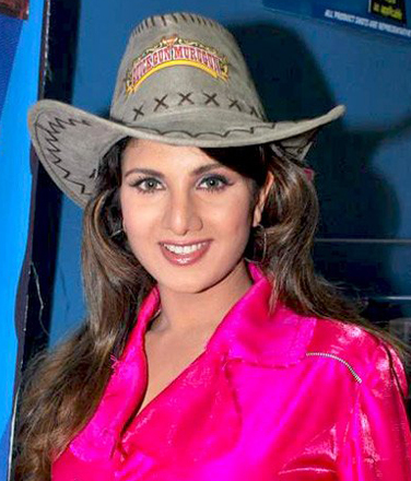 Rambha quick gun murugun